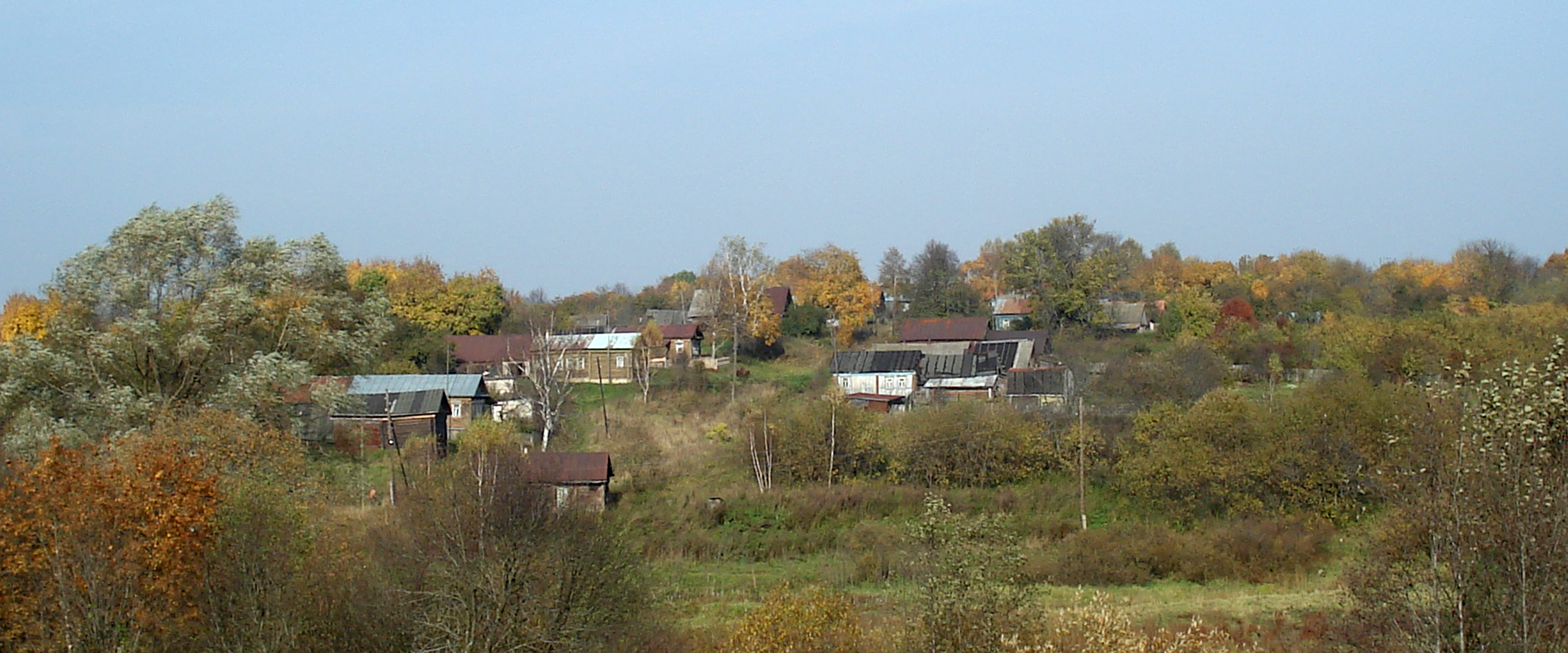 The Village of Zhekino. Nizhegorodskaya oblast. Russia.